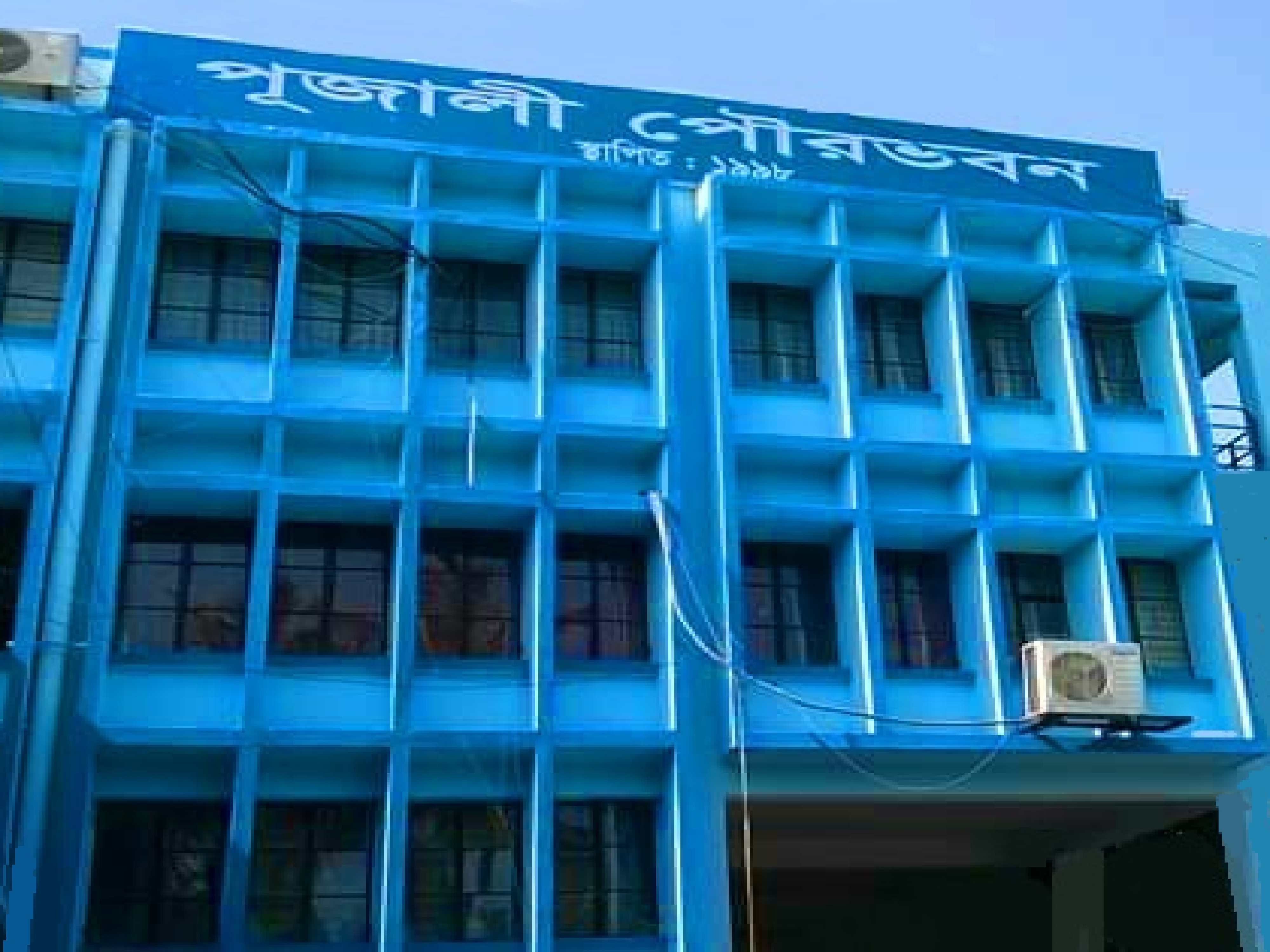 Building of the Pujali Municipal Corporation